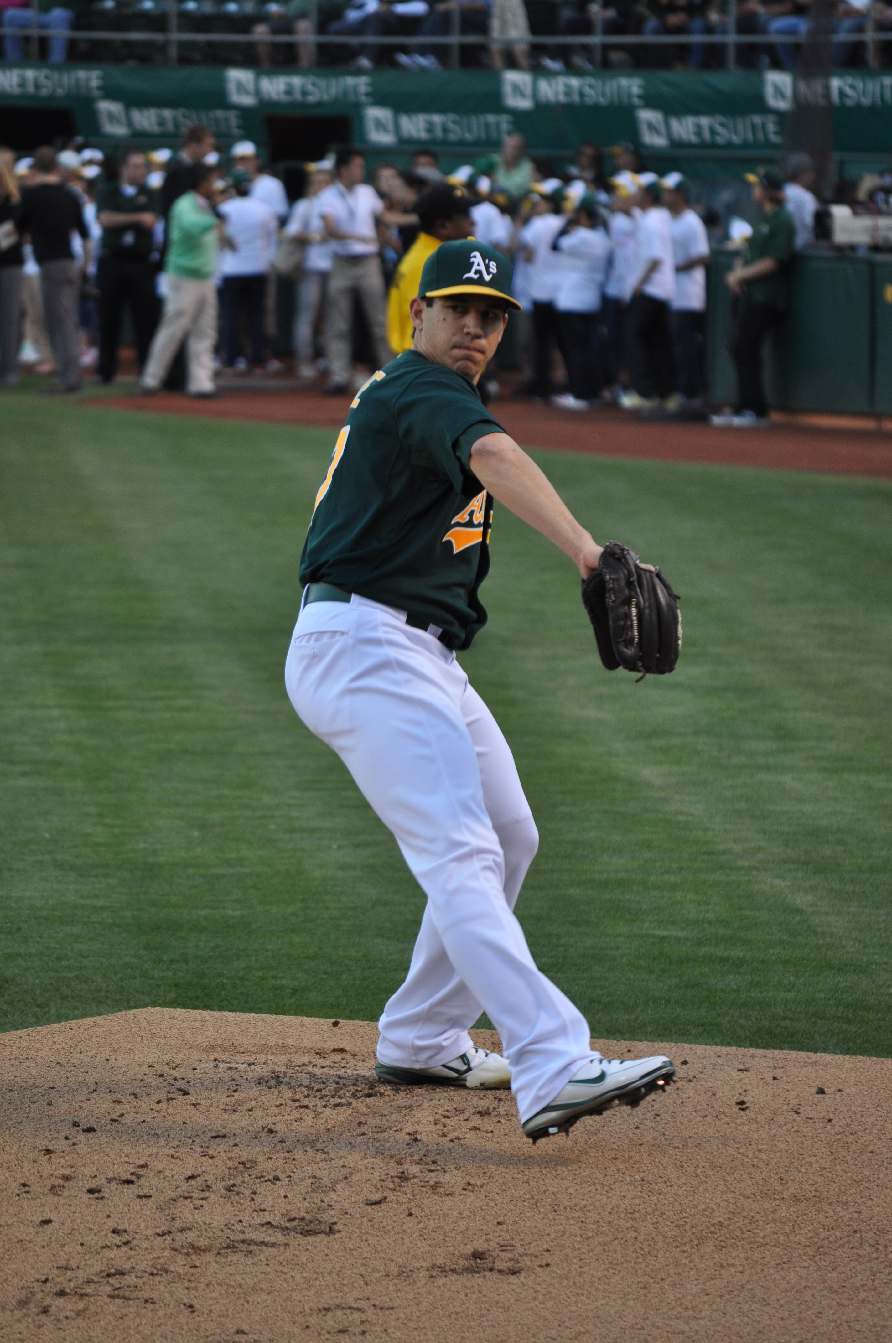 Tommy warms up before his 7-31-12 start against the Rays